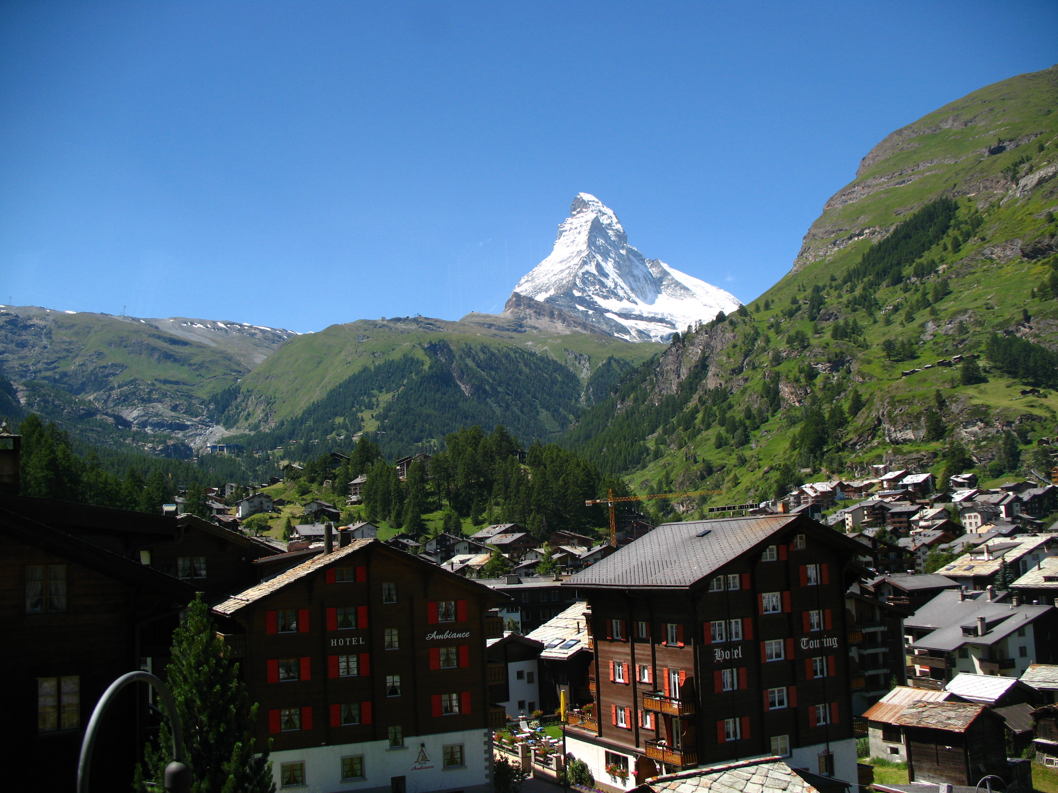 Matterhorn viewed from Gornergratbahn, Zermatt, Switzerland